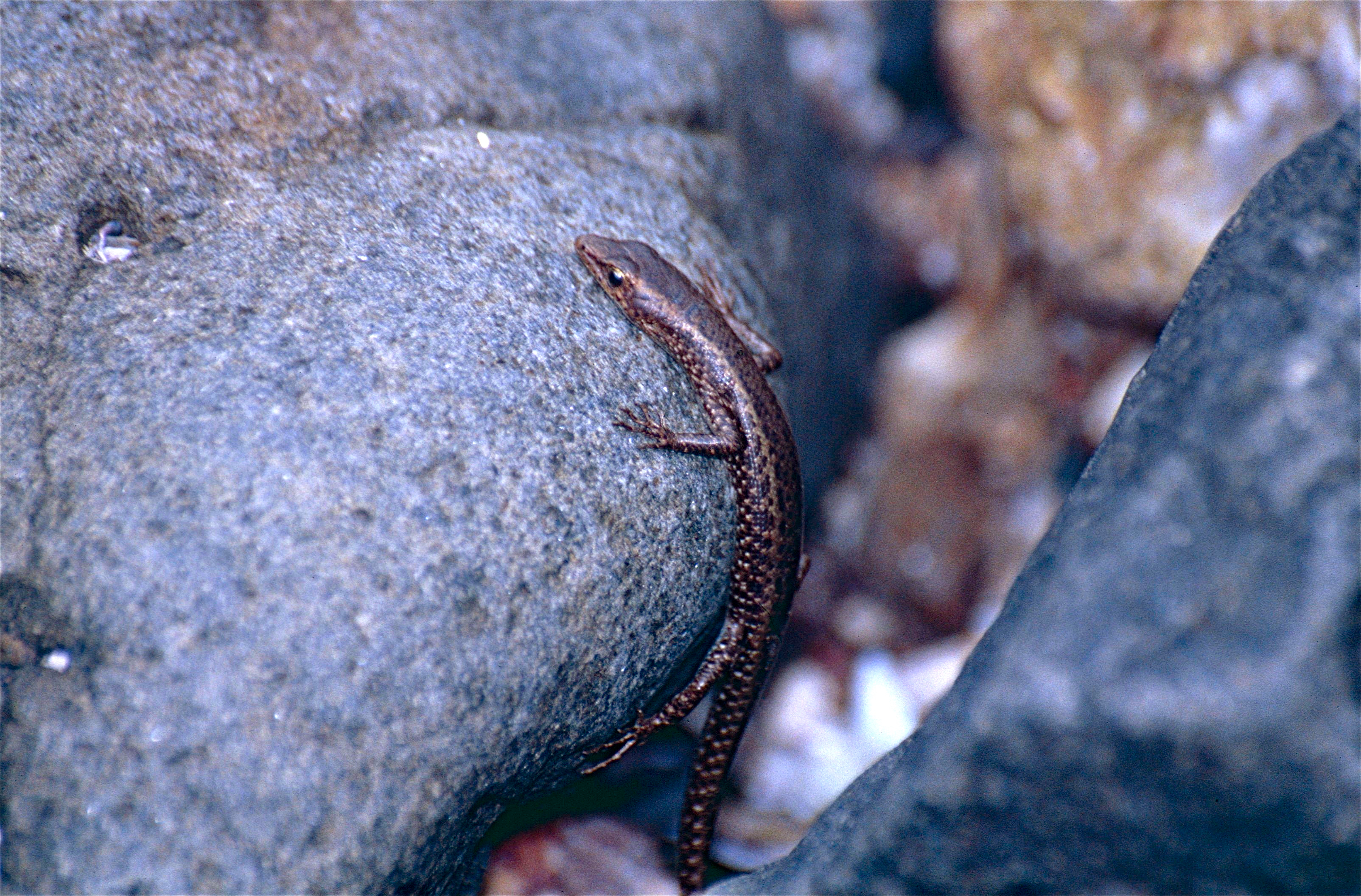 Cape Hillsborough NP, Central Queensland, AUSTRALIA Scanned Slide from Dec 2000